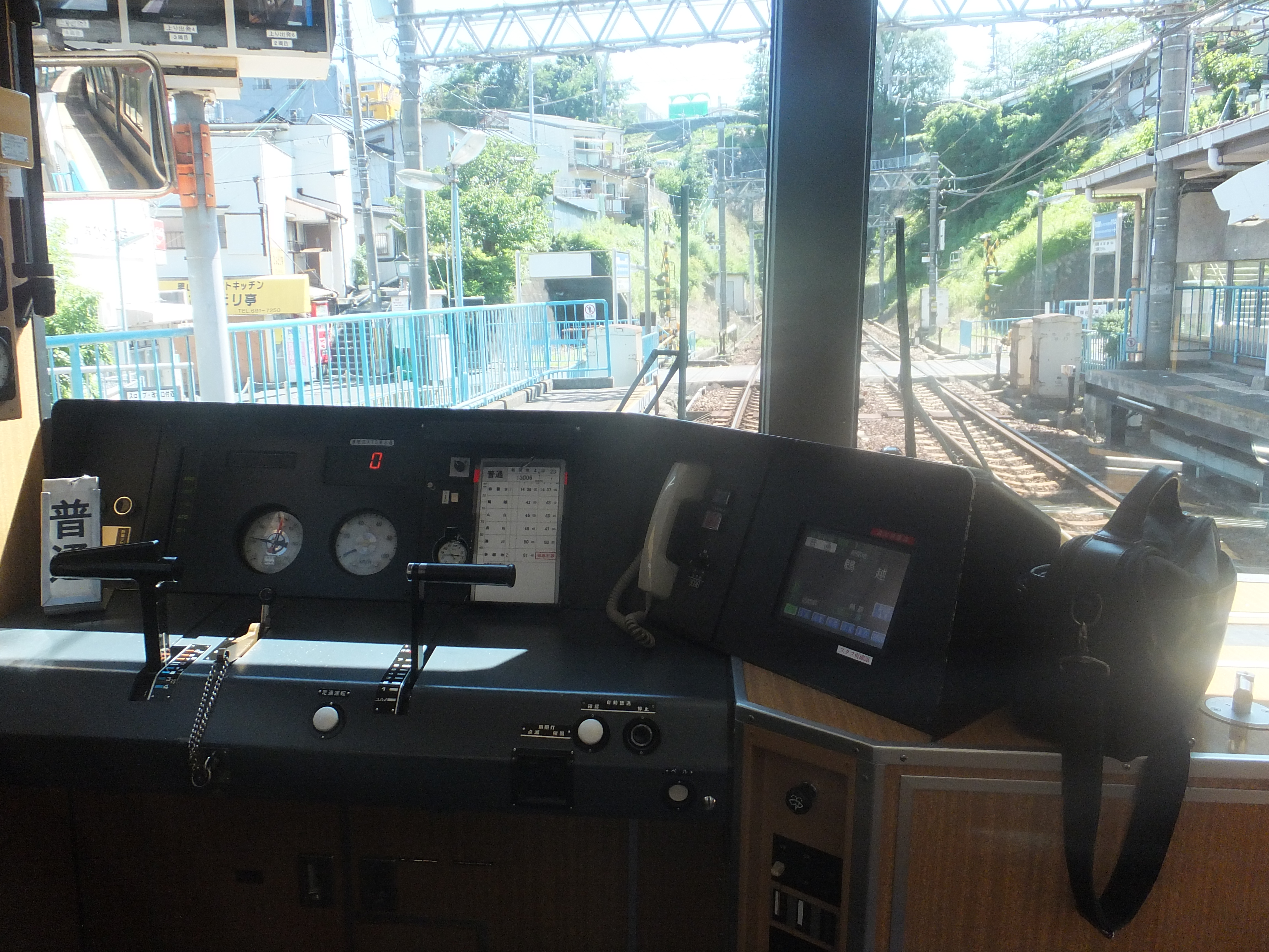 The driving cab interior of a Kobe Electric Railway 6000 series EMU